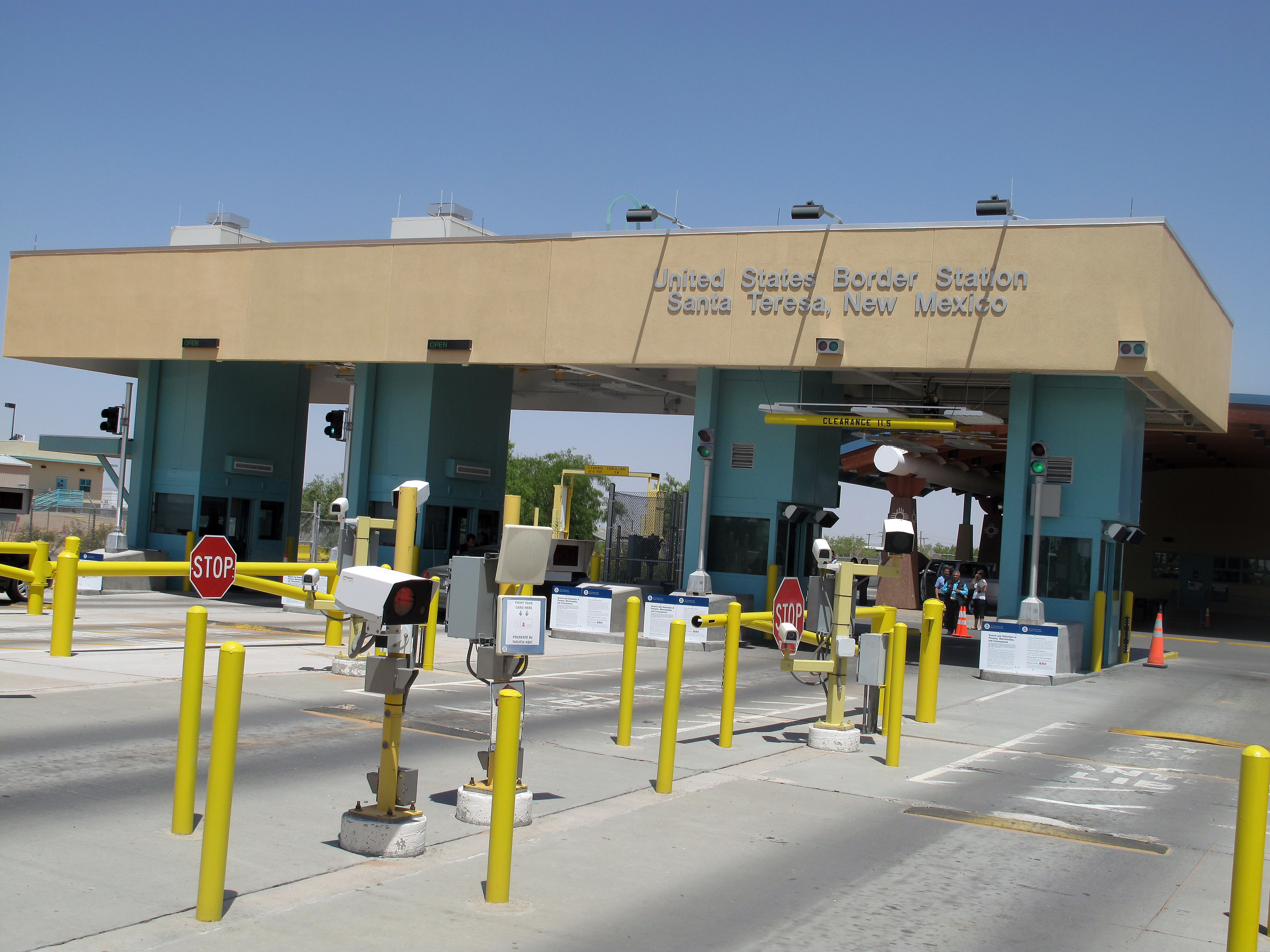 081513: New Mexico - Primary inspection booths at the recently renovated and expanded Santa Teresa Port of Entry. The port is located in New Mexico just west of El Paso, Texas. CBP officers working at the Santa Teresa port process approximately 400,000 northbound cars and 80,000 northbound commercial trucks annually. Photo provided by: U.S. Customs and Border Protection